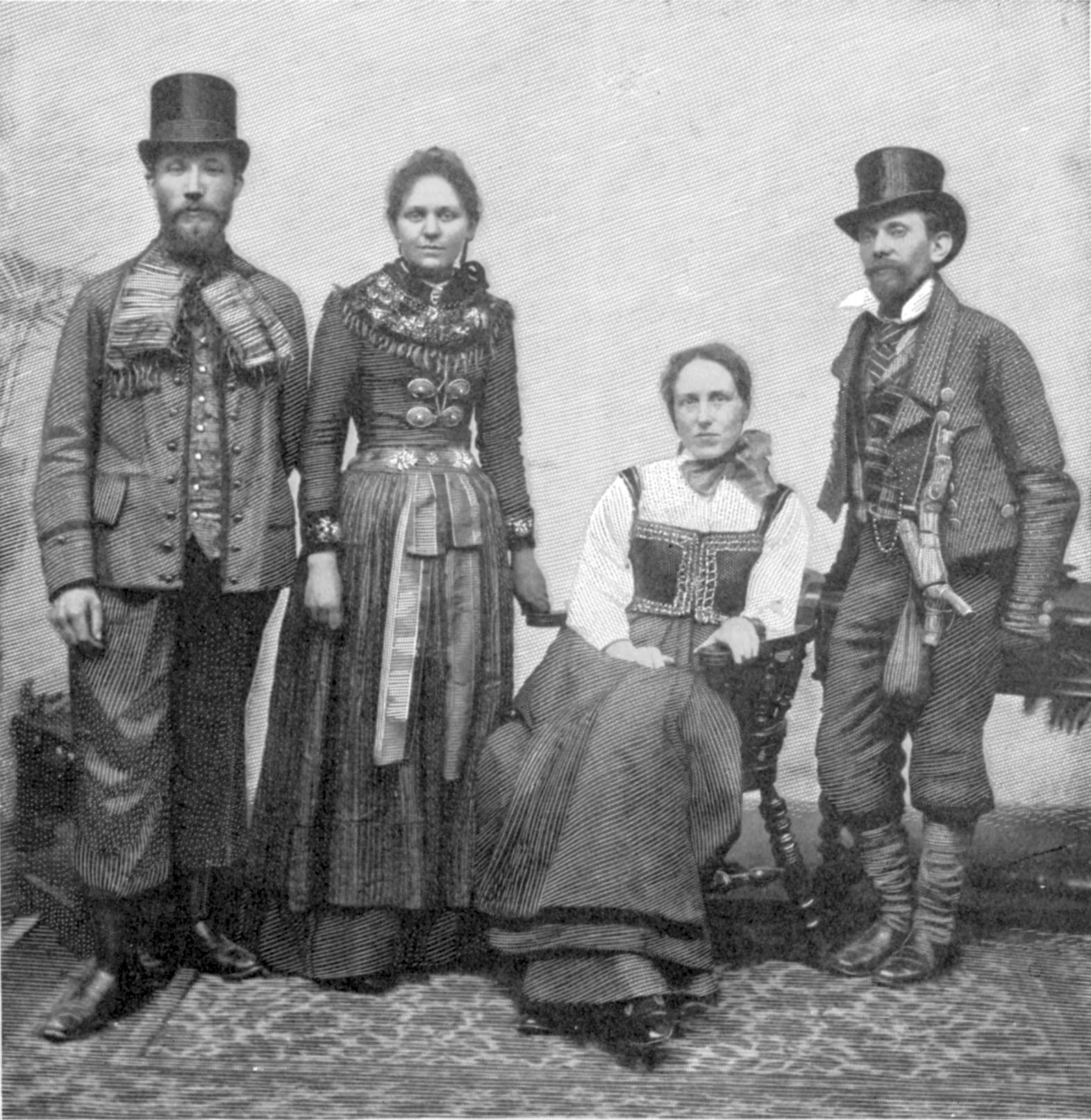 On the island of Amager preserved If people dress up high time, because that was a greengrocer's uniform. Partly because the people spoke a sort of Dutch themselves.